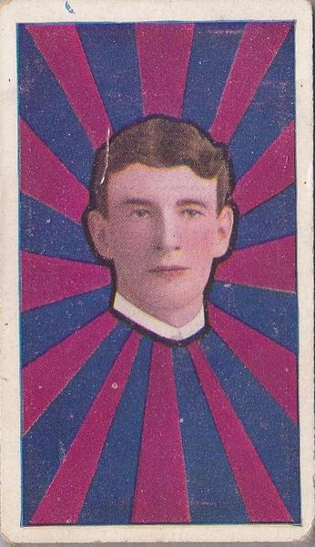 Cigarette card of Ted Farrell from the 1911 Sniders & Abrahams series.